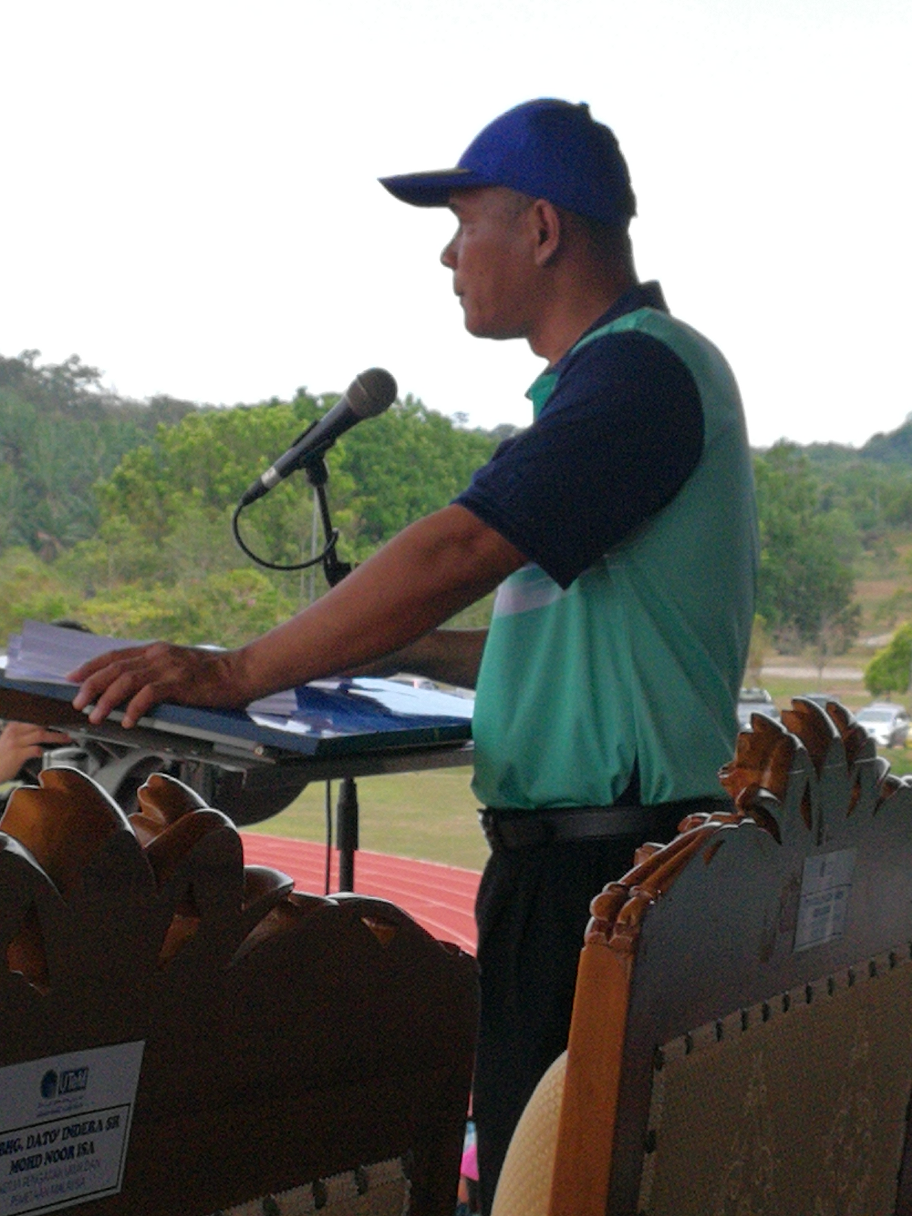 Pesuma32 Ucapan Aluan Penganjur